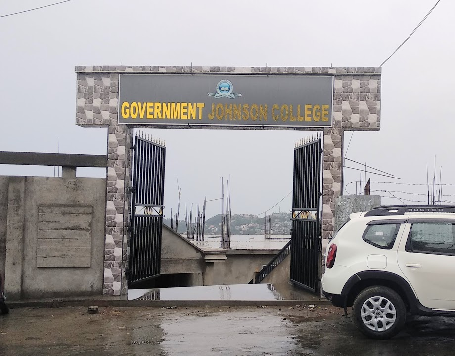 Johnson College, Khatla